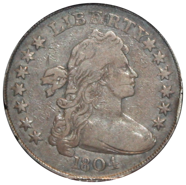 Type I 1804 dollar on exhibit as noted above. One of the great rarities of American numismatics, and now it's Wikipedia's!